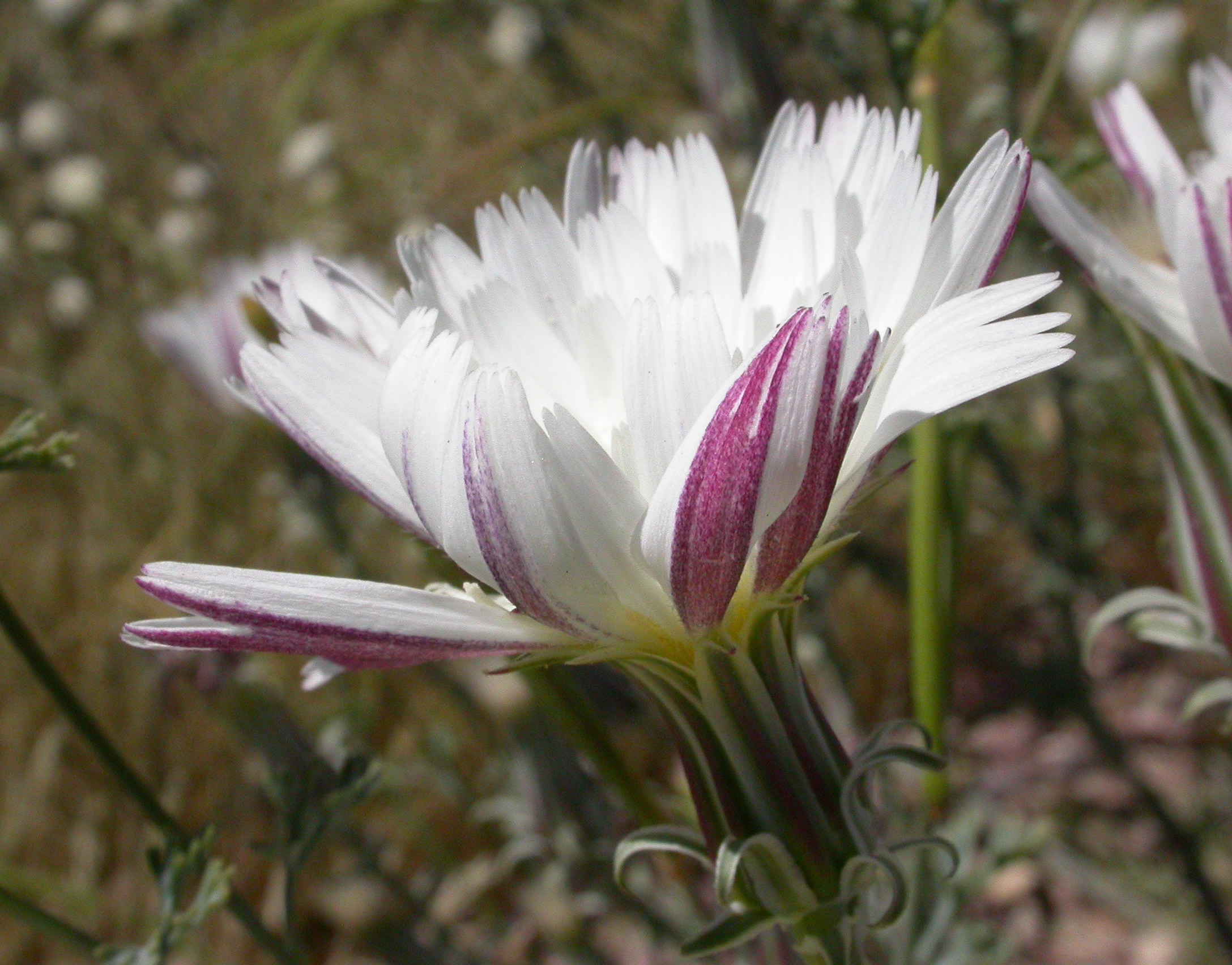 Rafinesquia neomexicana — Desert chicory. Blooming in the eastern Mojave Desert, near Amboy in San Bernardino County, California.